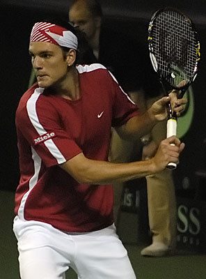 Frank Dancevic (Canada) during 2009 Davis Cup against Ecuador.